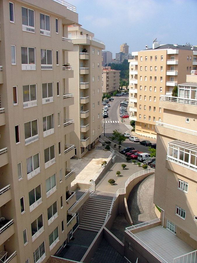 Apartment buildings in Mafamude freguesia, Vila Nova de Gaia, Portugal. July, 2005.